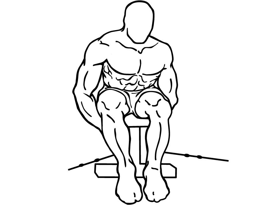 an exercise of shoulders